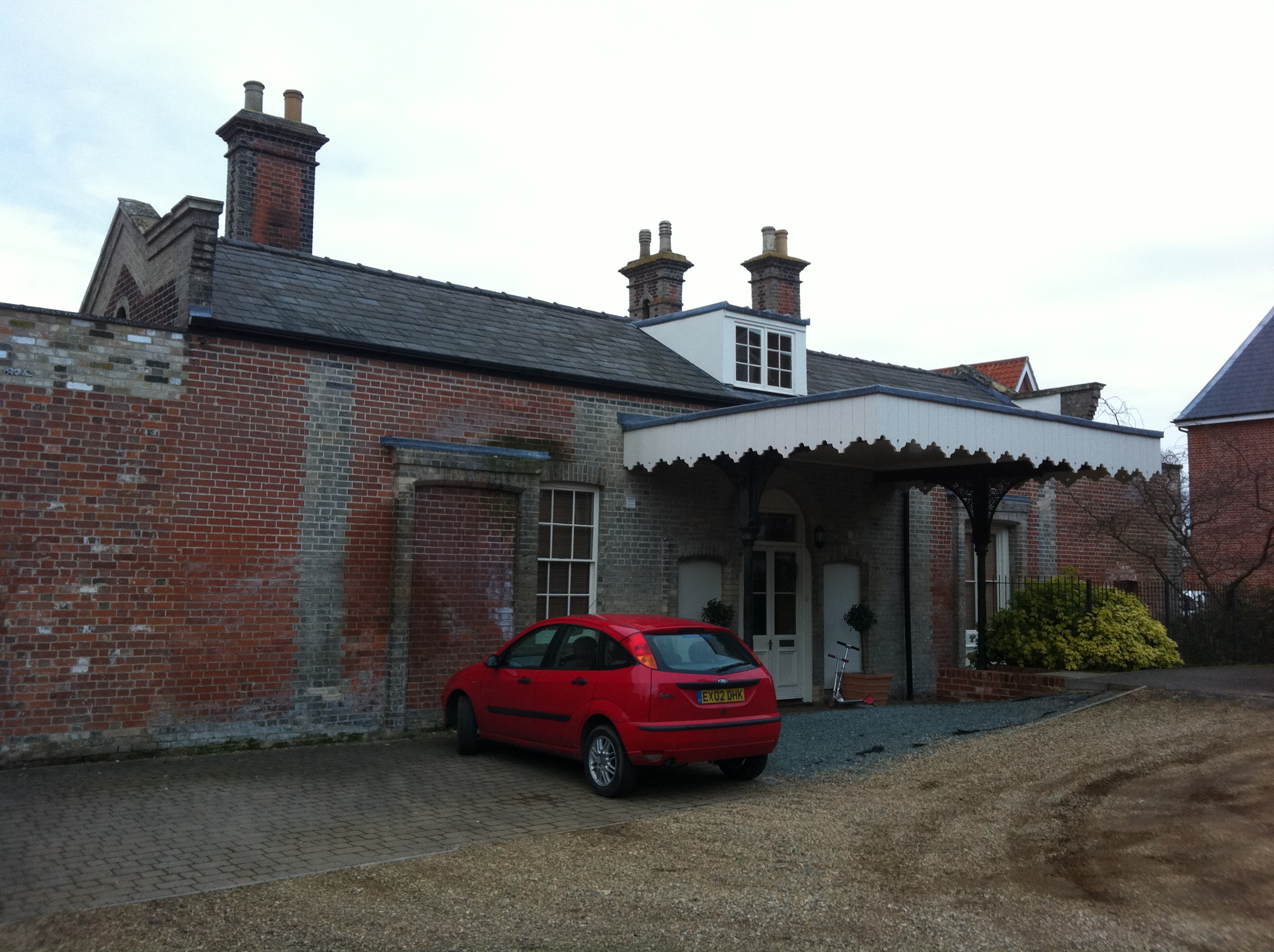 Former Hadleigh Station, near to Hadleigh, Suffolk, Great Britain. Hadleigh railway station was opened in 1847 and closed to passenger traffic in 1932, with freight services lasting on until 1965 now a rather swanky home